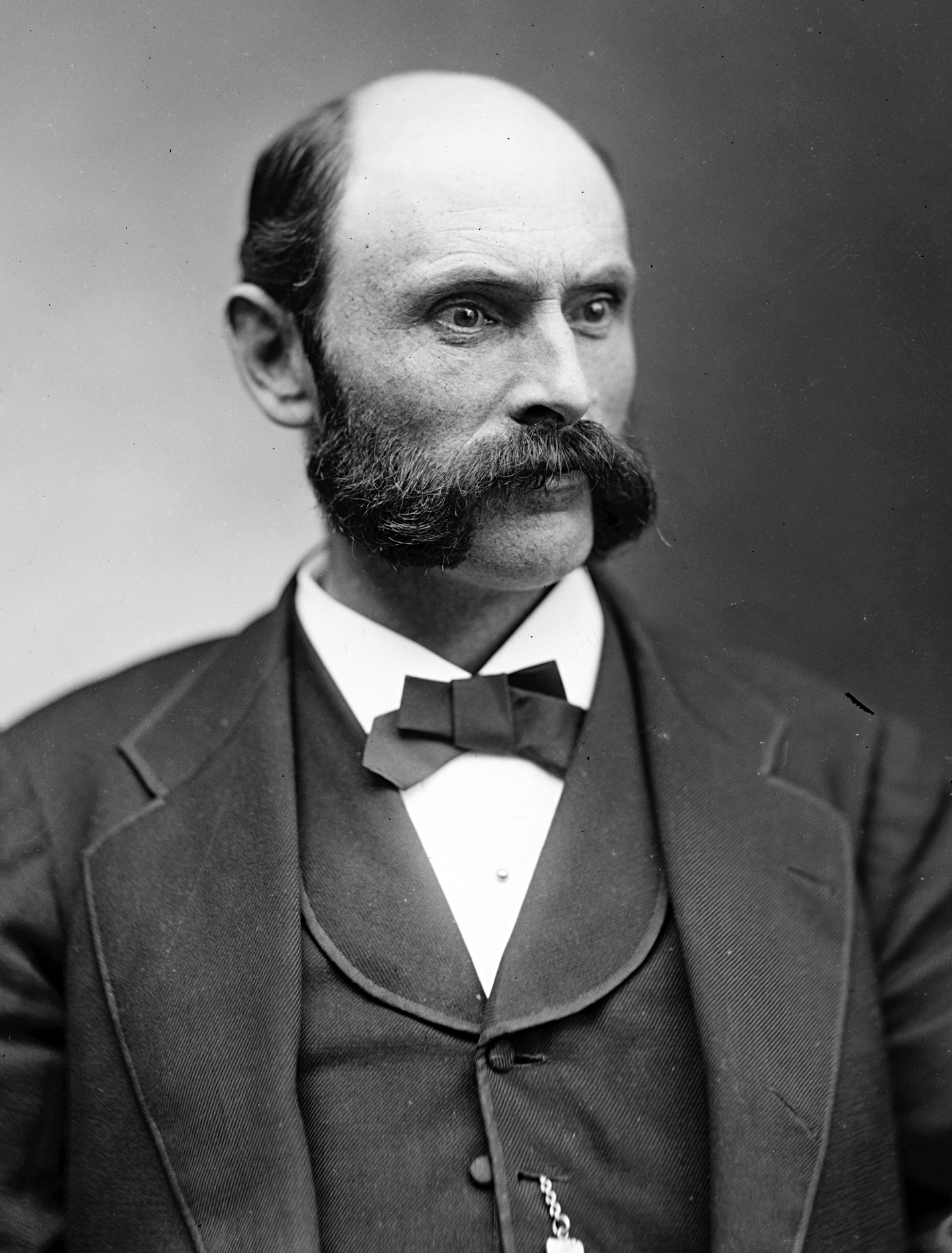 Edwin W. Keightley, US Representative from Michigan